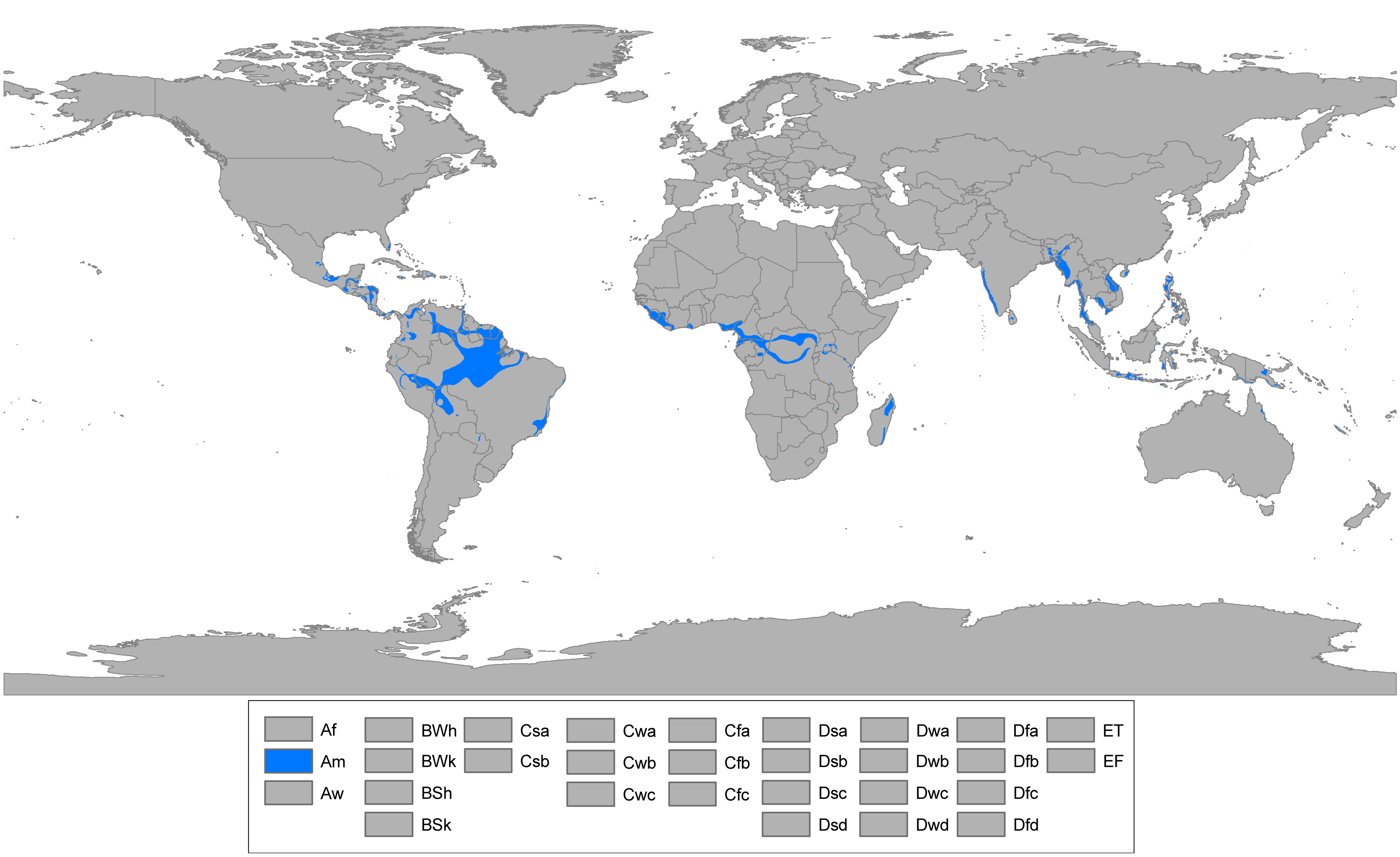 Updated world map of the Köppen-Geiger climate classification. Tropical monsoon climate (Am)